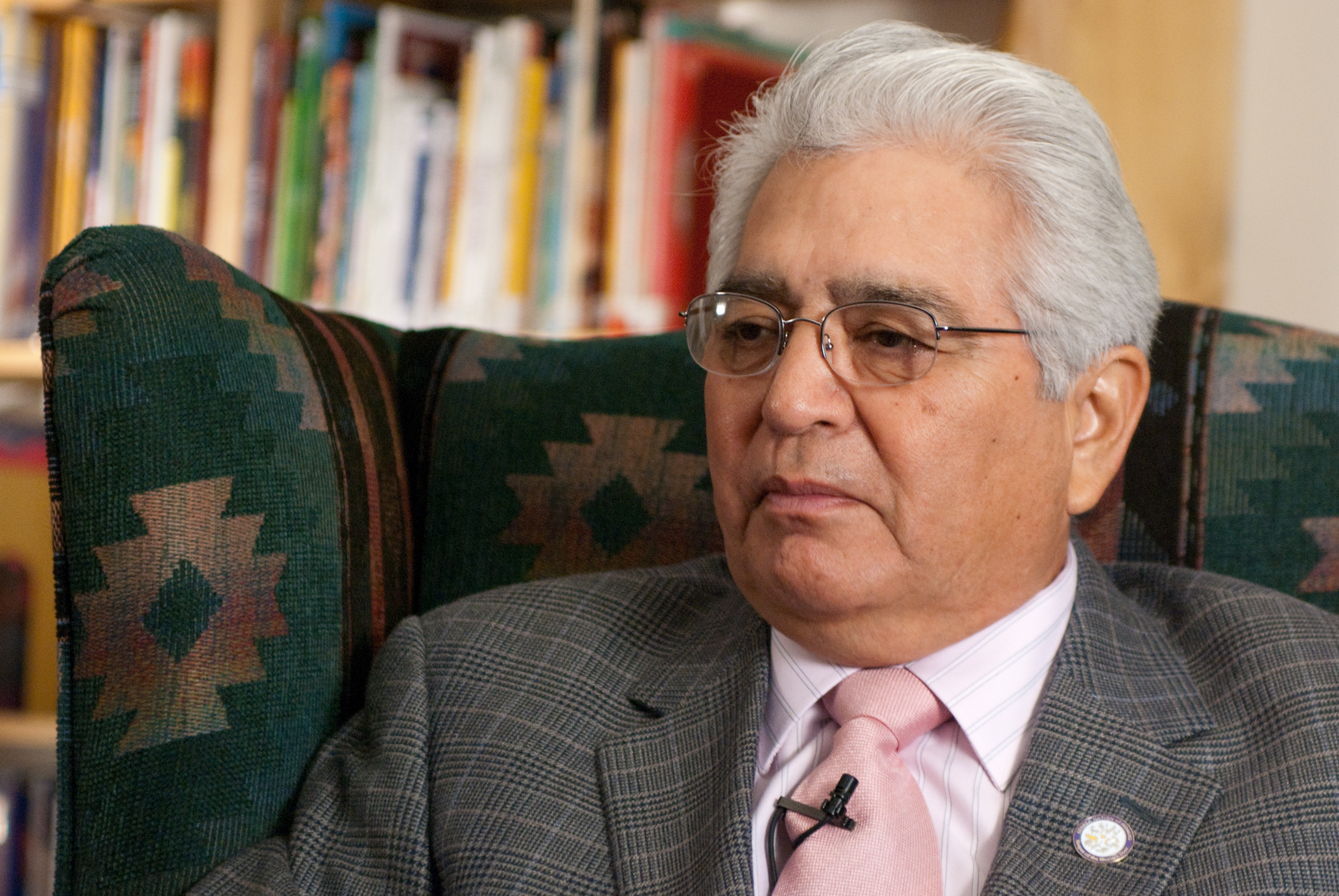 Buffalo, NY, November 19, 2009 --Seneca Nation President Barry E. Snyder, Jr. FEMA and Seneca Nation work together in FEMA for Kids Project. Michael Medina-Latorre/FEMA